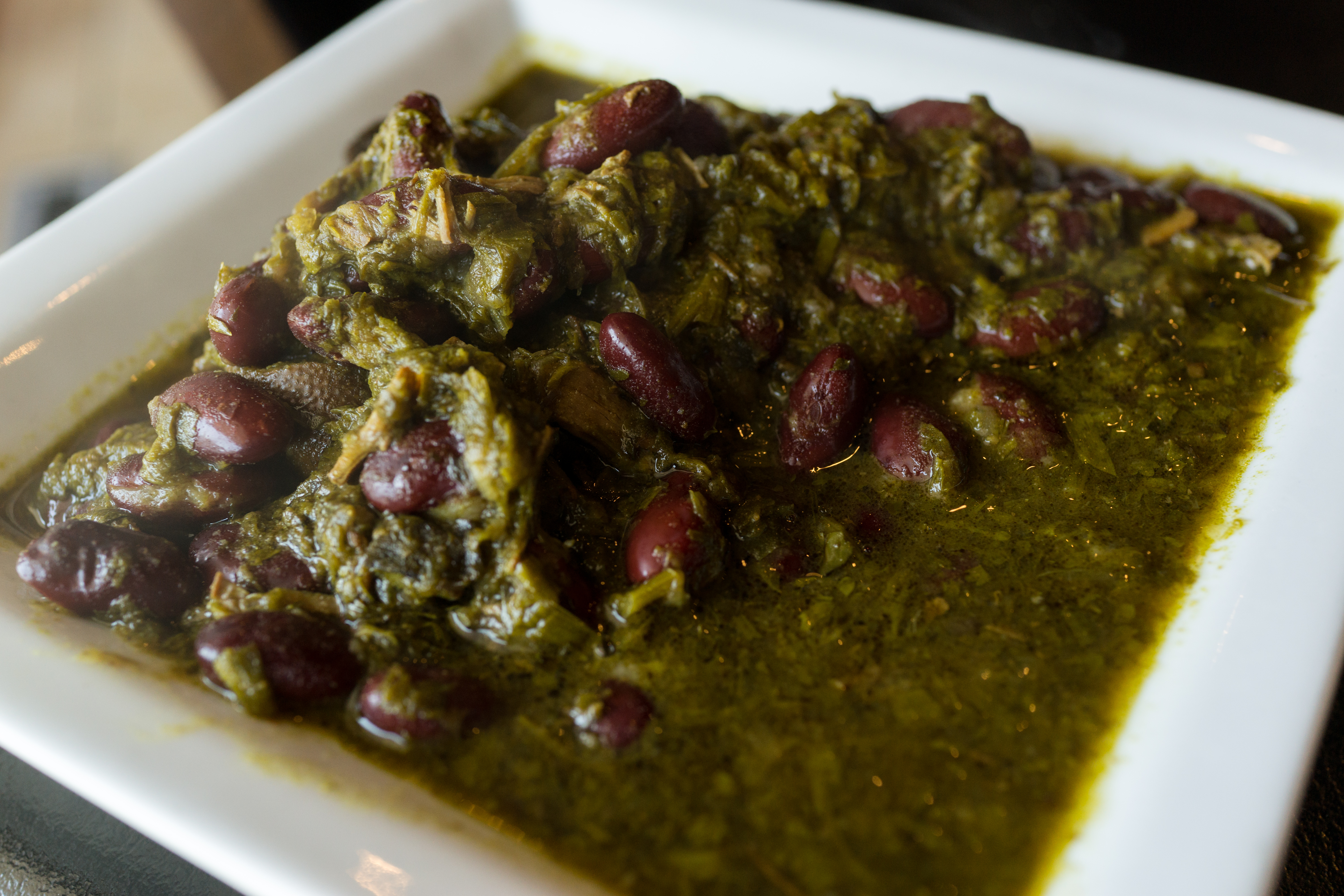 Sautéed herbs, beef tenderloin, red kidney beans, flavored with dried limes